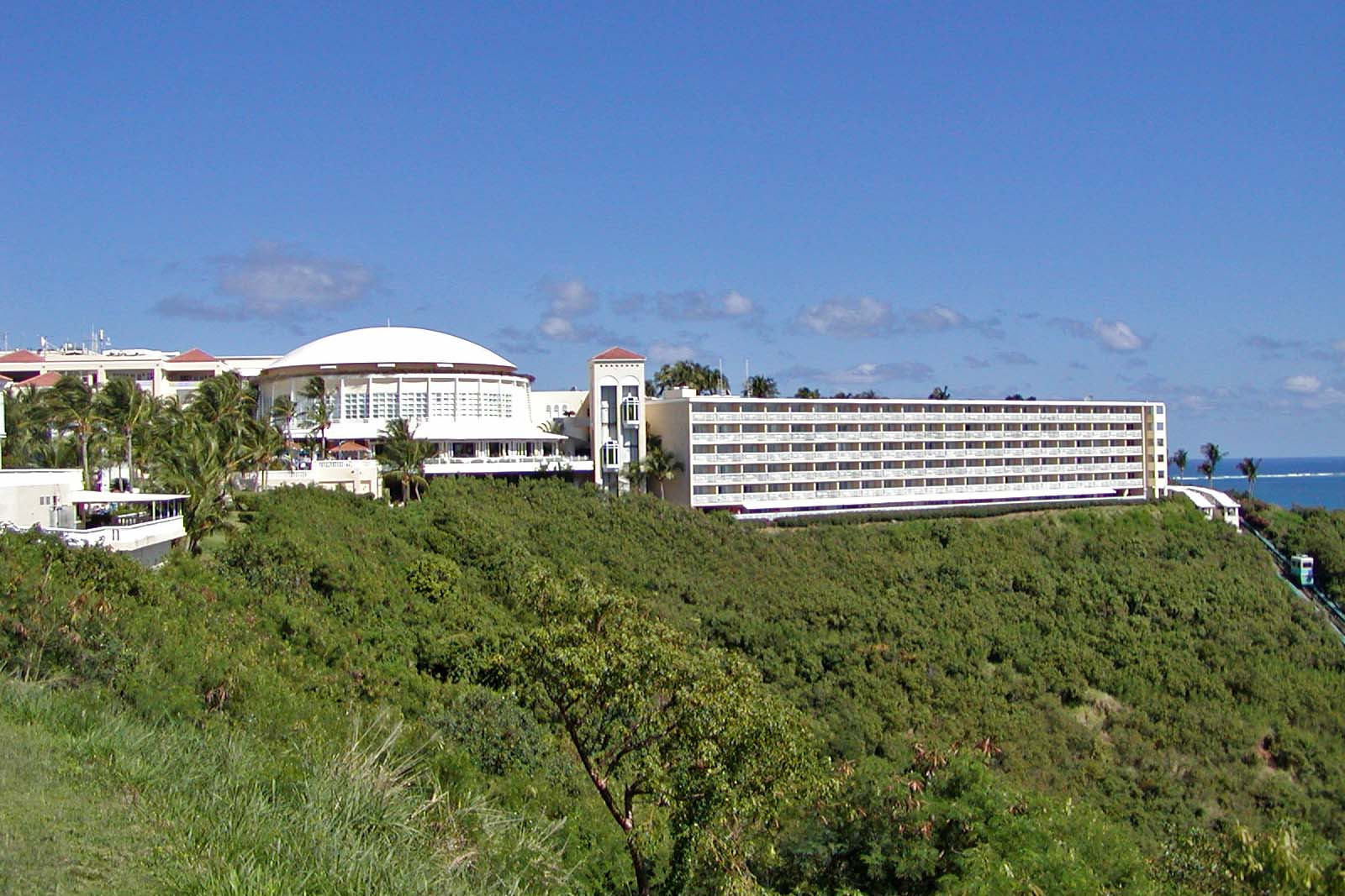 Photo of Fajardo, Puerto Rico El Conquistador resort